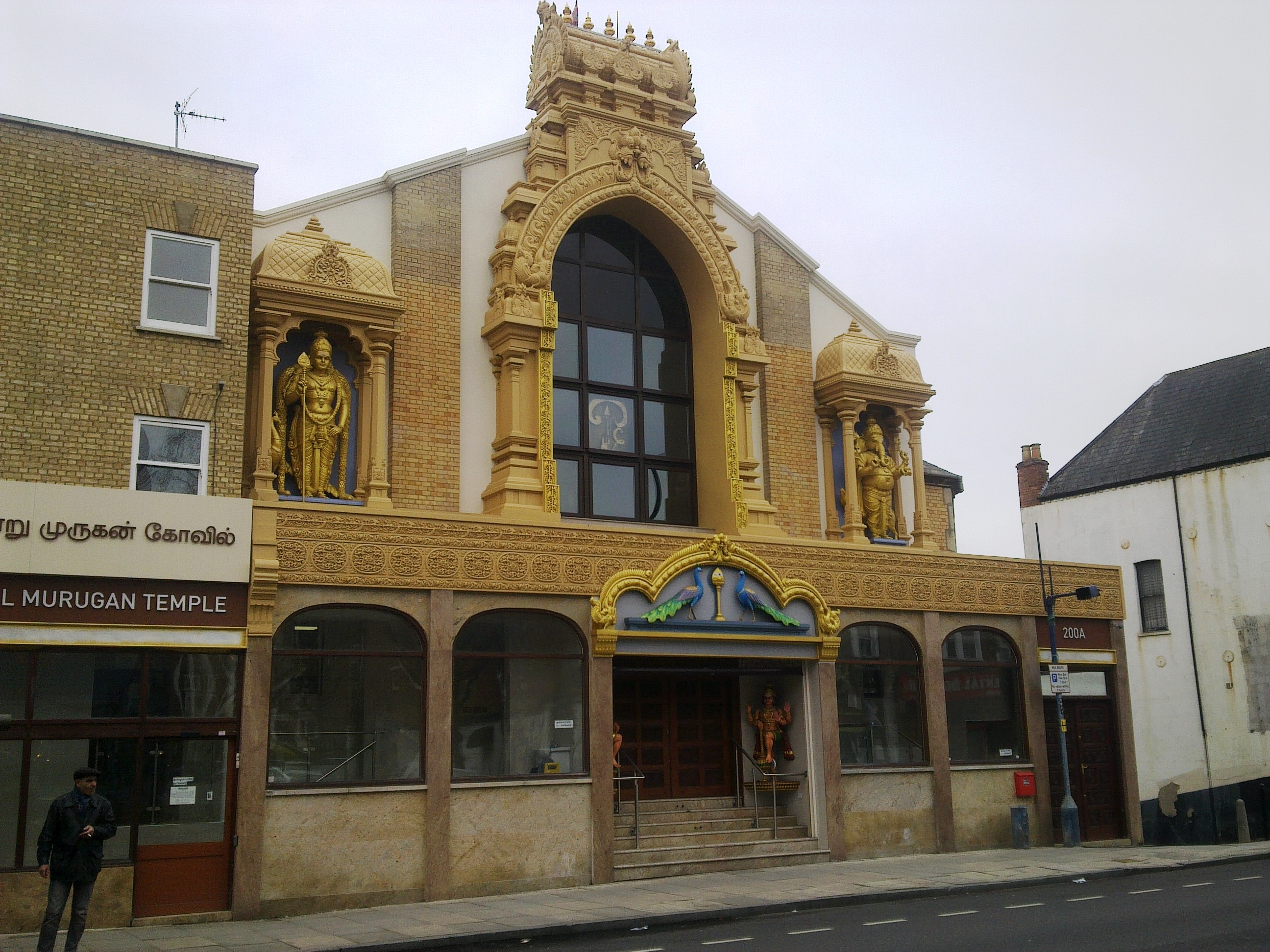 Highgatehill Murugan Temple at 200A Archway Road, London N6 5BA